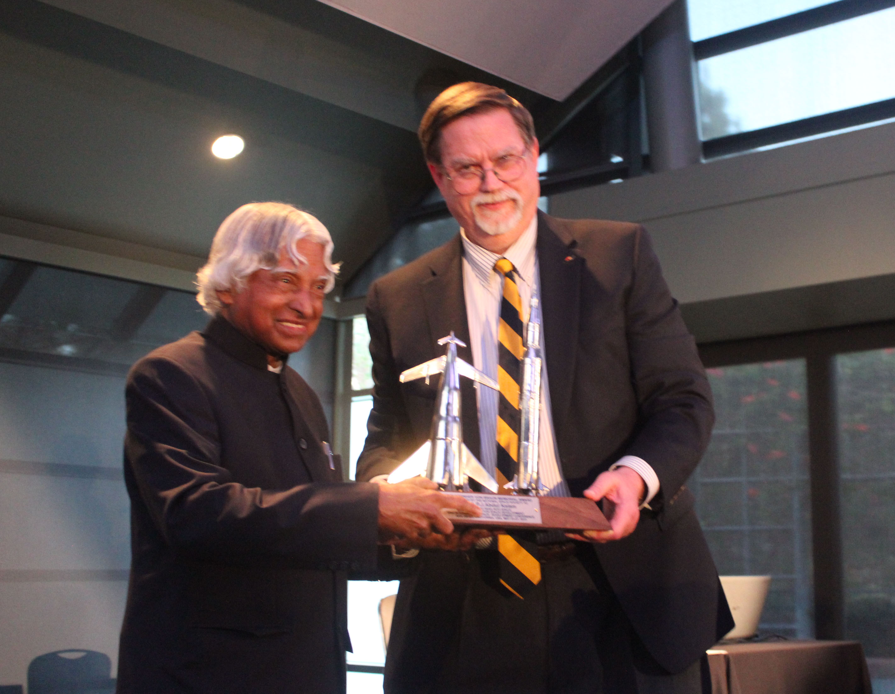 Mark Hopkins presenting the Von Braun Award to Dr. Abdul Kalam at ISDC 2013